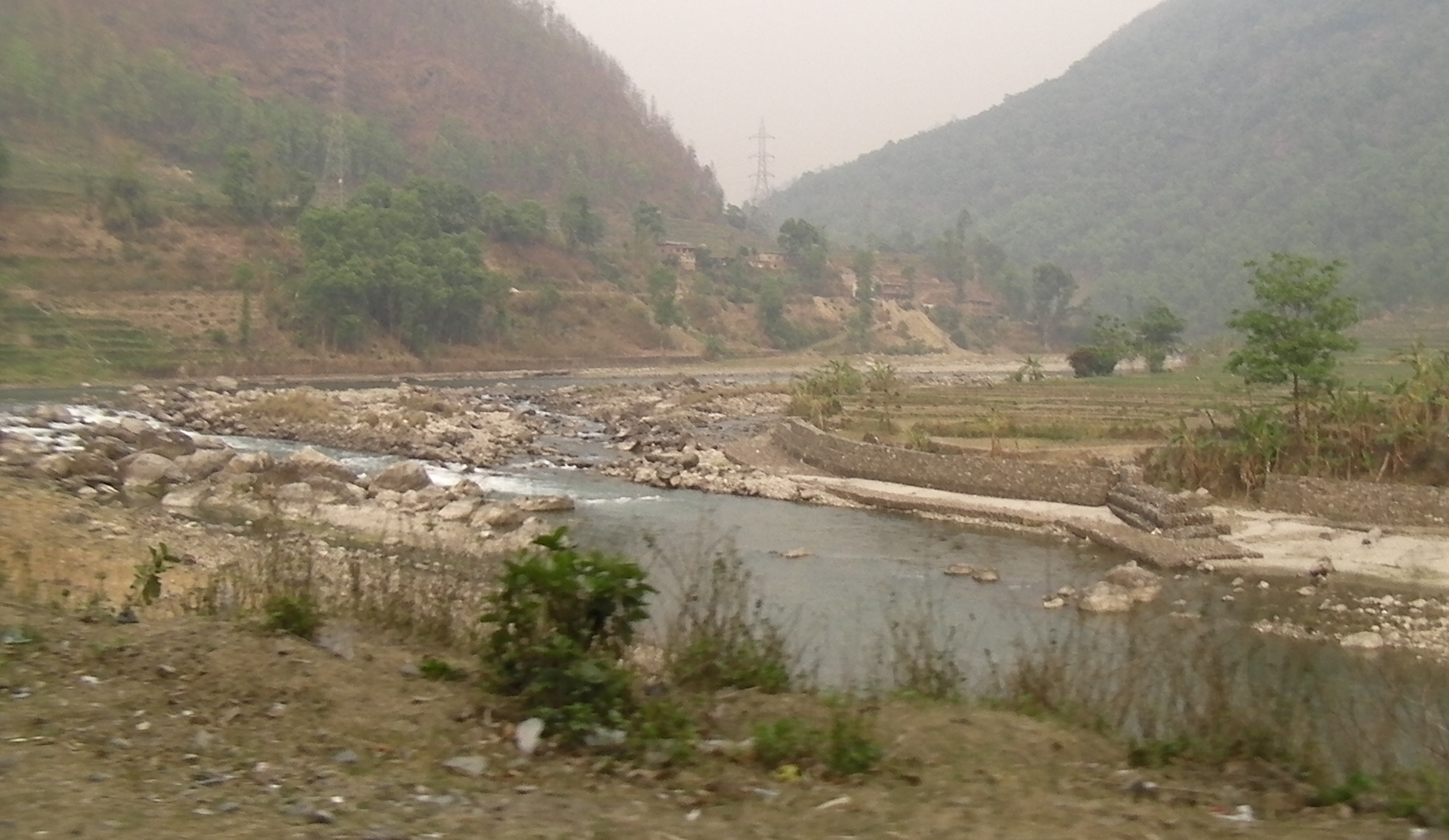 View of the Bhote Kosi (or Bhote Khosi, also known as the Rongshar Tsangpo) river in Nepal, roughly halfway between the Tibet border and Kathmandu. It is relatively late in the dry season, with low water levels and poor long distance visibility. The Bhote Kosi is a tributary of the Kosi River that flows through India.